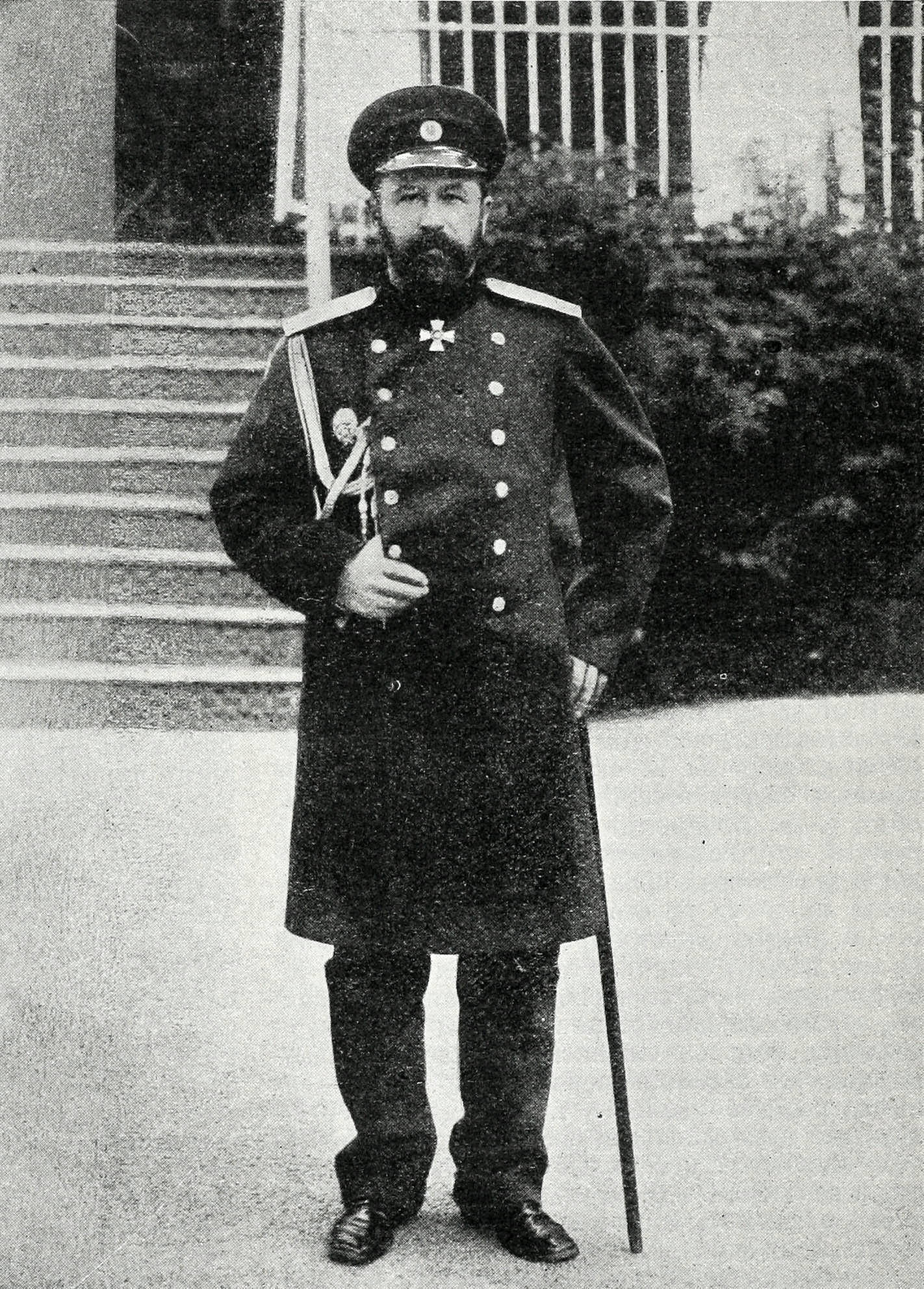 Alexei Nikolayevich Kuropatkin (Russian: Алексе́й Никола́евич Куропа́ткин; March 29, 1848 – January 16, 1925) was the Russian Imperial Minister of War from 1898 to 1904, and often held responsible for major Russian defeats in the Russian-Japanese War, most notably at the Battle of Mukden and the Battle of Liaoyang.